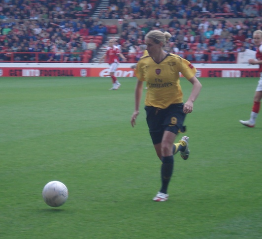 Kelly Smith